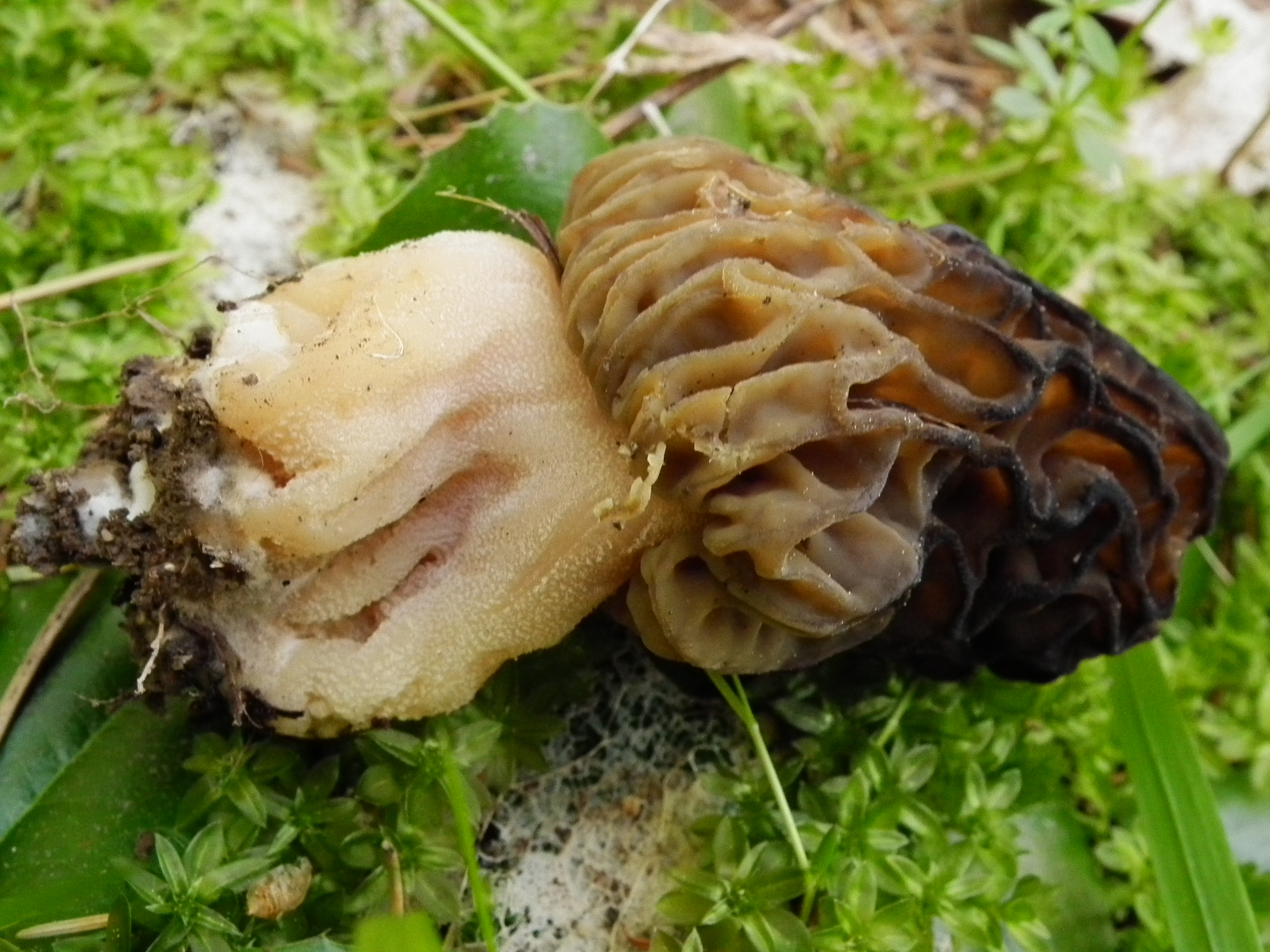 An ascocarp of the morel mushroom Morchella snyderi M.Kuo & Methven. Photographed in Chelan Co., Washington, USA. "Notes: specimen 1: ridges are black where the hymenophore was exposed above litter/duff, tan where buried"